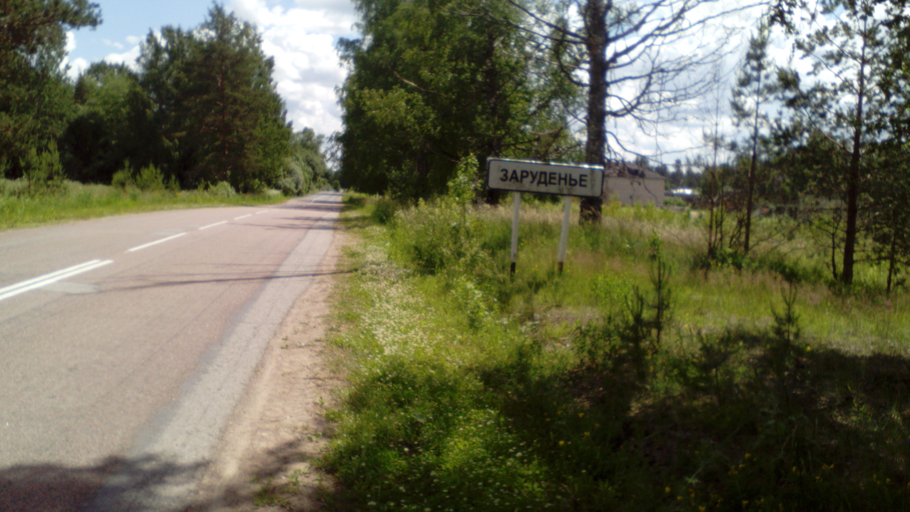 Zarudenie village enter